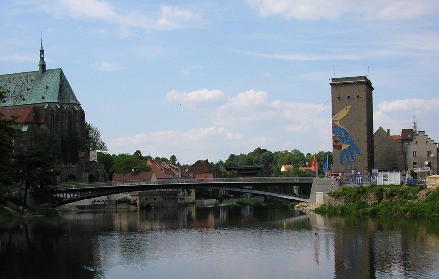 The Pedestrian bridge over the Neiße between Görlitz and Zgorzelec, which opened in 2004.